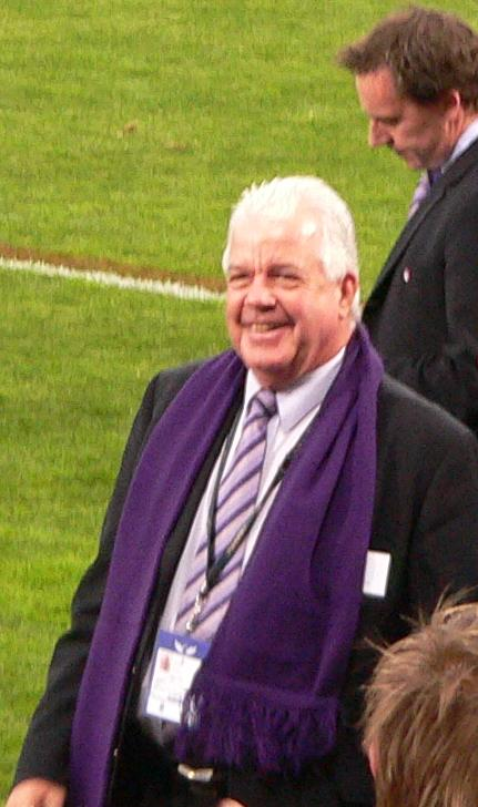 Rick Hart after a Fremantle Victory. Cameron Schwab is in the background.